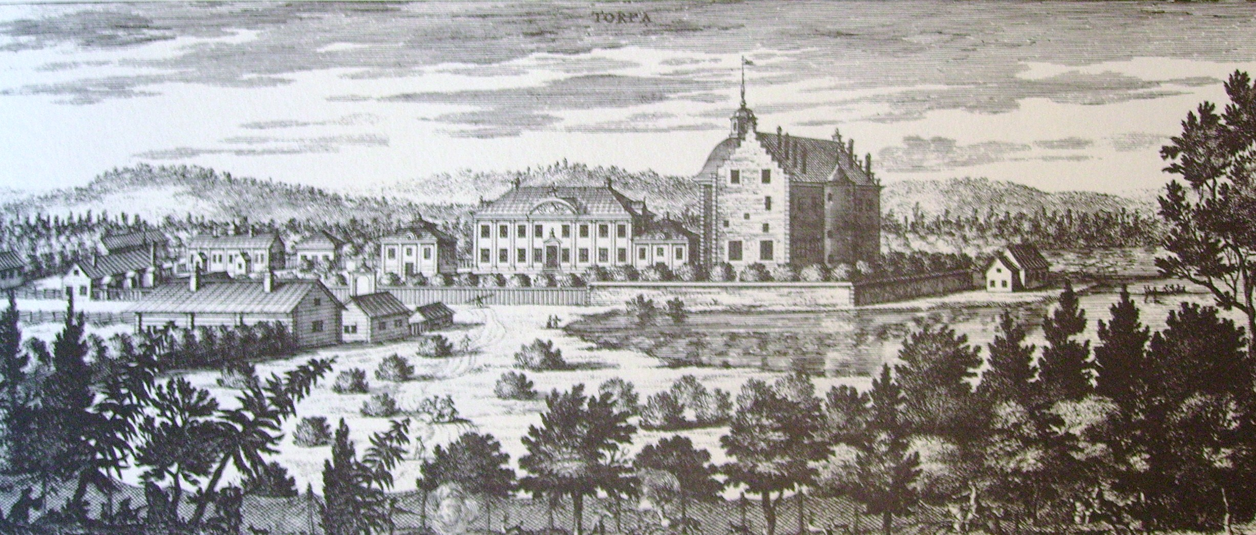 Picture of Torpa in Västergötland